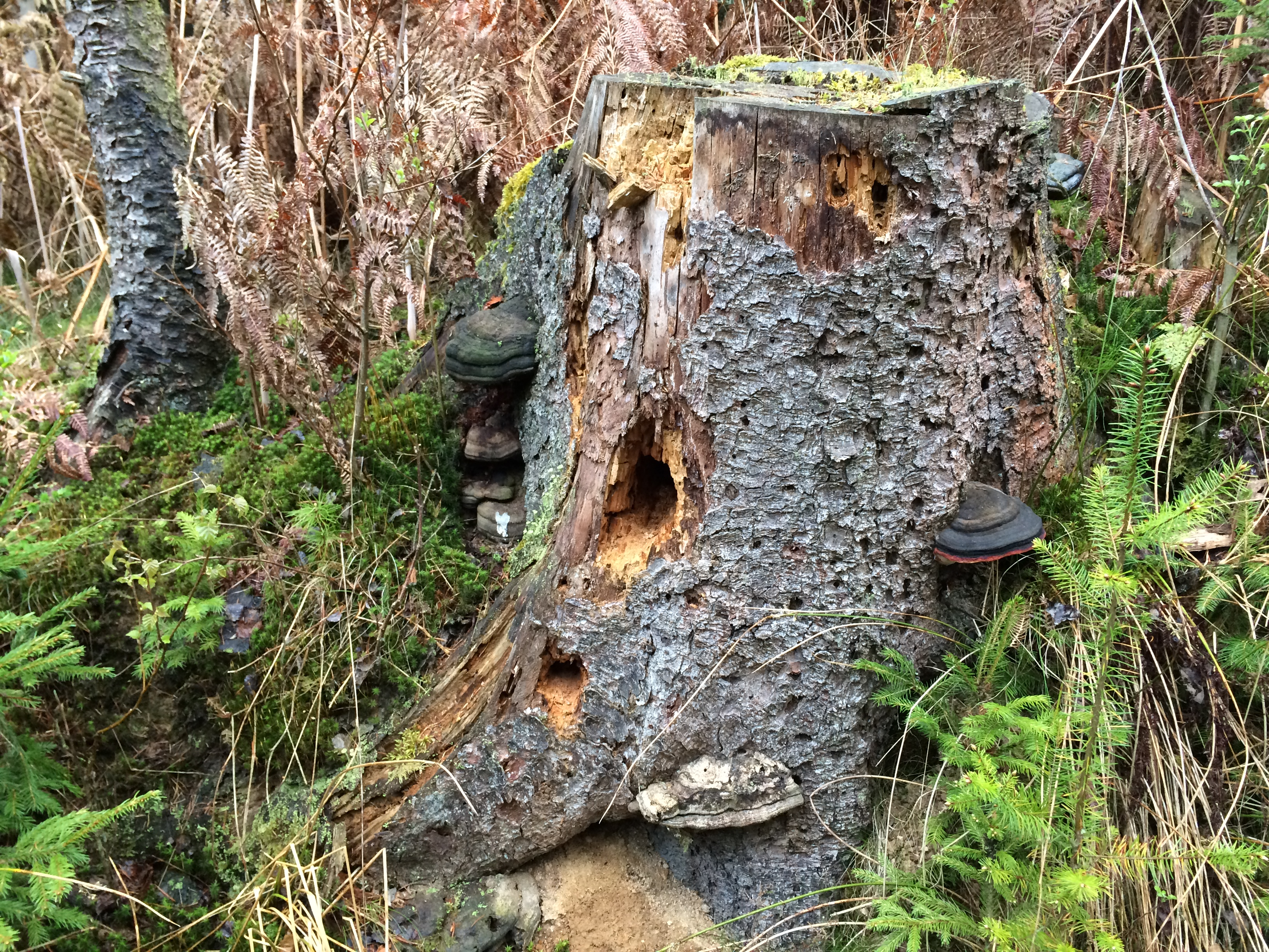 Very much live around this treestump.